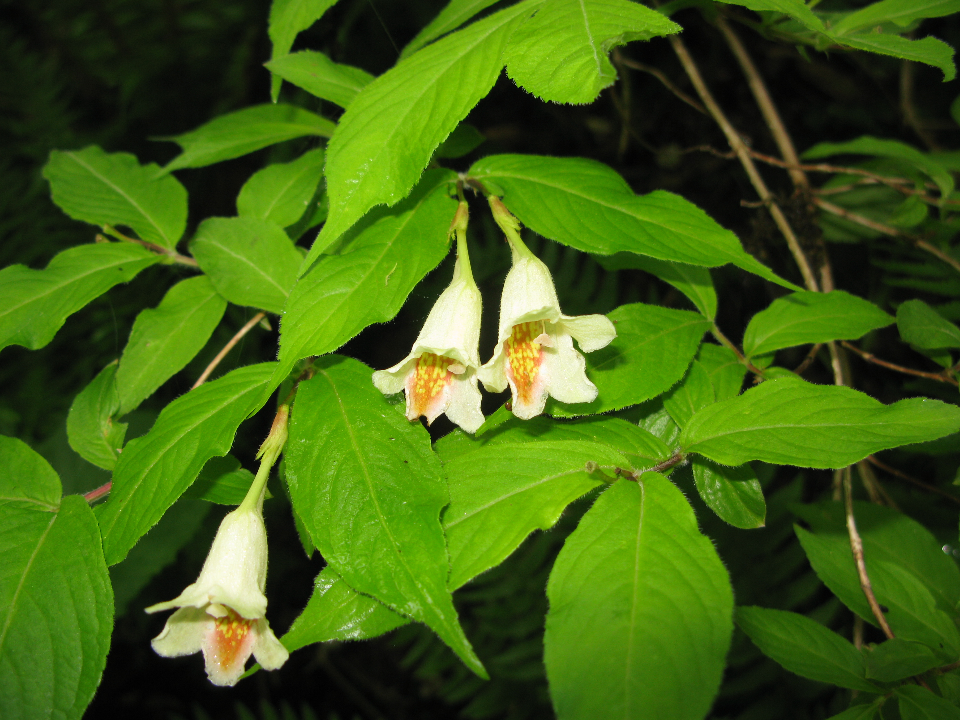 Weigela maximowiczii, Fukushima city, Fukushima pref., Japan